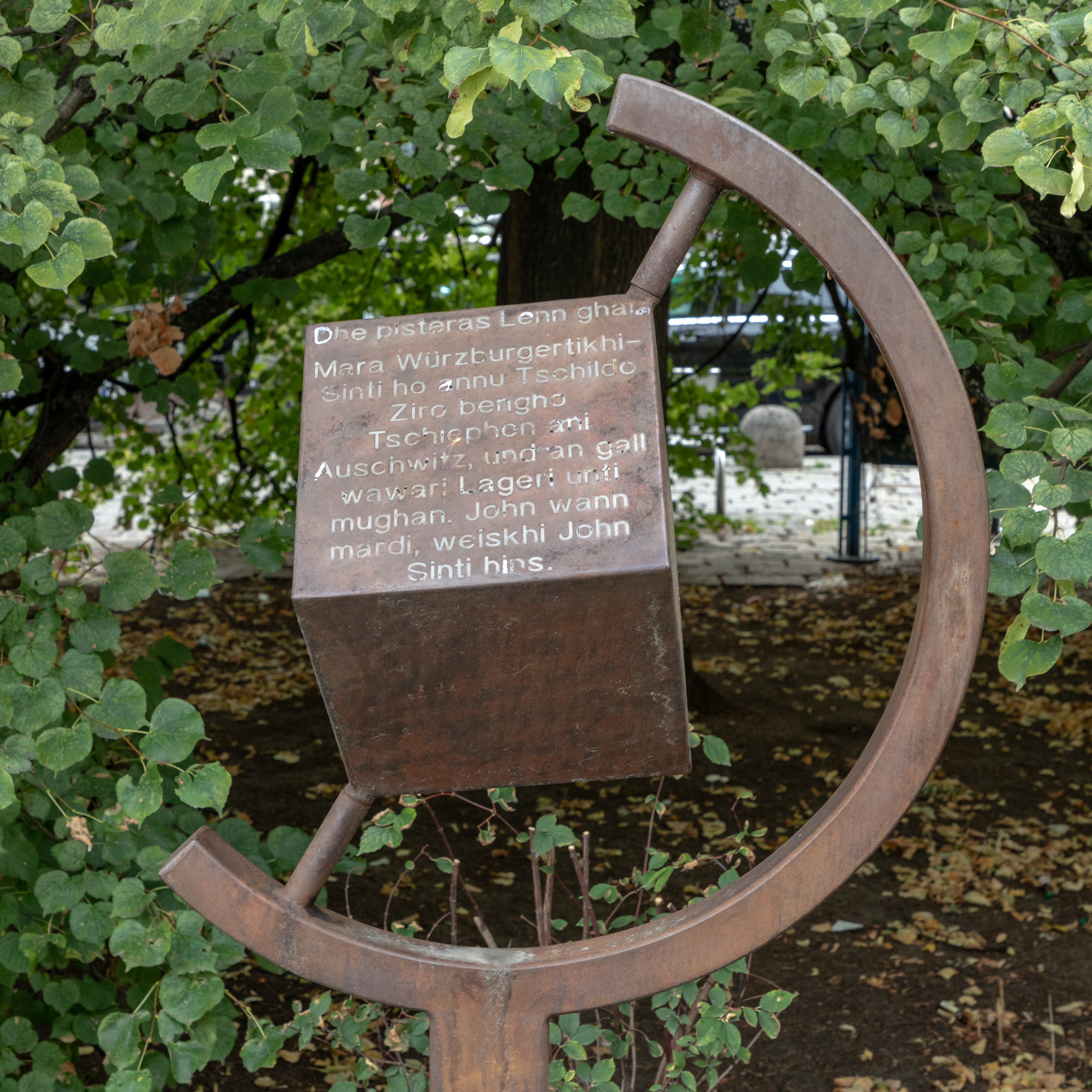 Memorial “Sinti and Roma” (Würzburger Berufsschüler, 2005), Würzburg, Bavaria, Germany Sculpture TitleSinti und RomaArtistWürzburger BerufsschülerDate2005